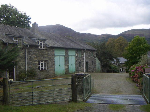 Hafod Garregog The old farmhouse is just visible beyond the outbuildings